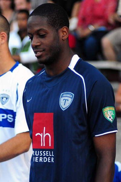 Photo of soccer player, Quavas Kirk.